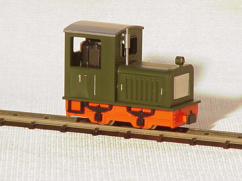 Egger-Bahn model of diesel locomotive